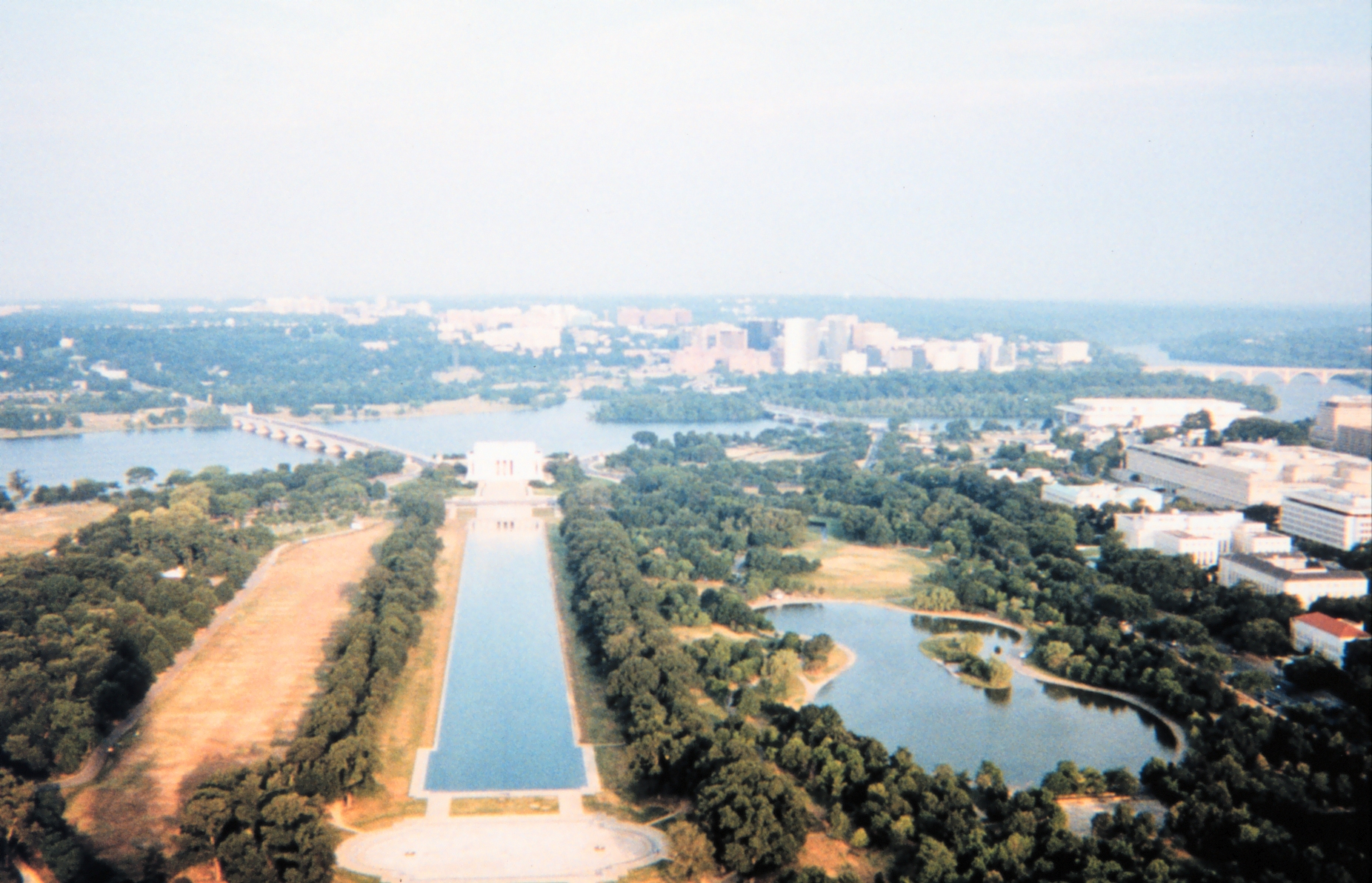 View looking west from the top of the Washington Monument towards the Lincoln Memorial and the Reflecting Pool. Image ID: geod0518, NOAA's Geodesy Collection Source: NOAA: Restrictions for Using NOAA Images: Most NOAA photos and slides are in the public domain and CANNOT be copyrighted. Although at present, no fee is charged for using the photos credit MUST be given to the National Oceanic and Atmospheric Administration/Department of Commerce unless otherwise instructed to give credit to the photographer or other source. High-Res image for download at the site.